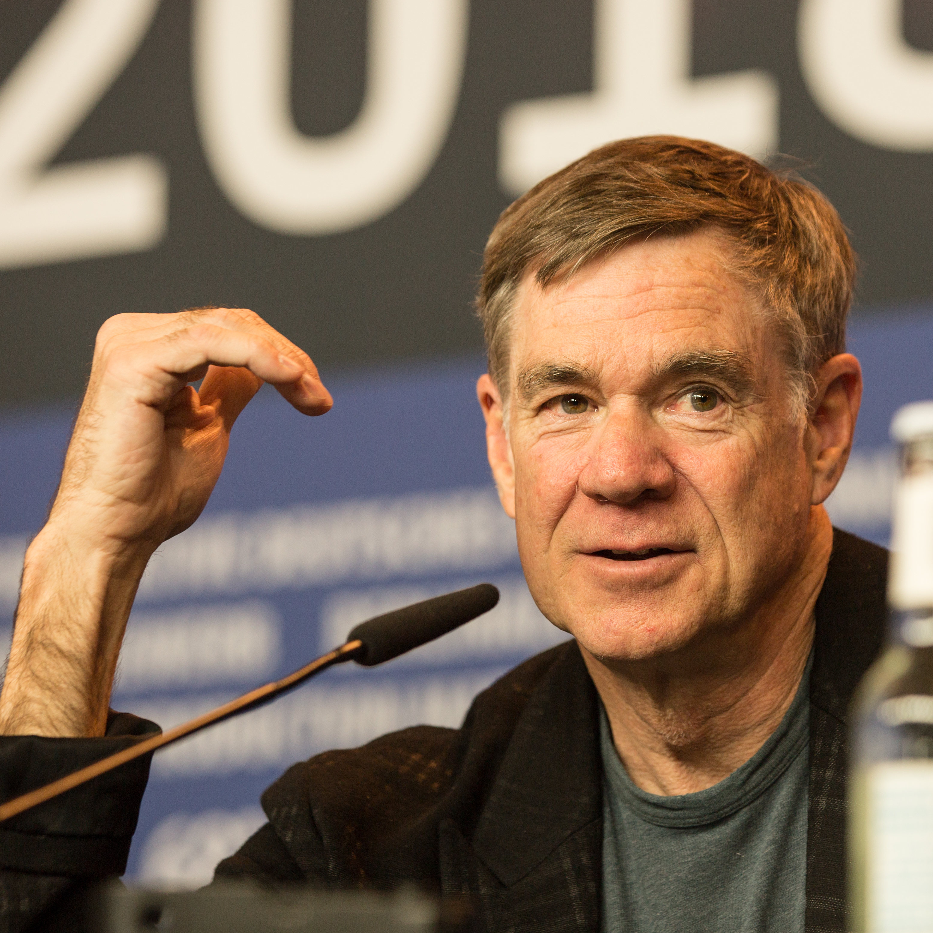 Film director Gus Van Sant at the Berlinale 2018